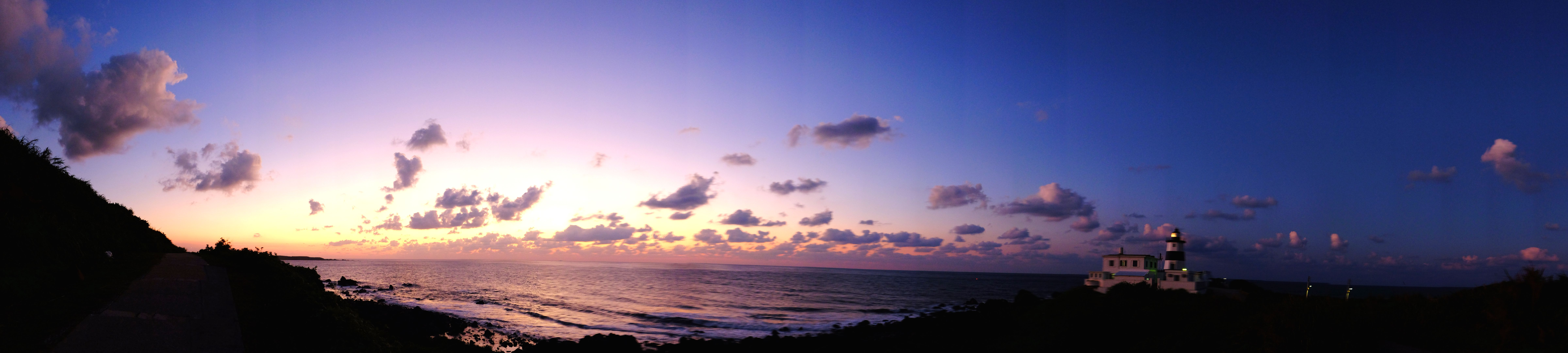 Tapin lighthouse、Cape Hoek lighthouse sunset中文（台灣）: 富貴角燈塔夕照